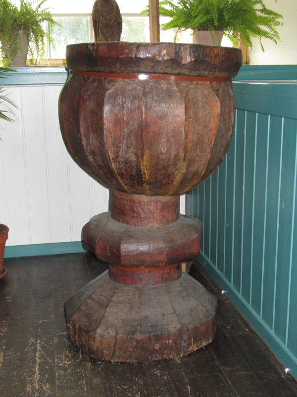 Baptismal font in Eckerö church, Åland, Finland